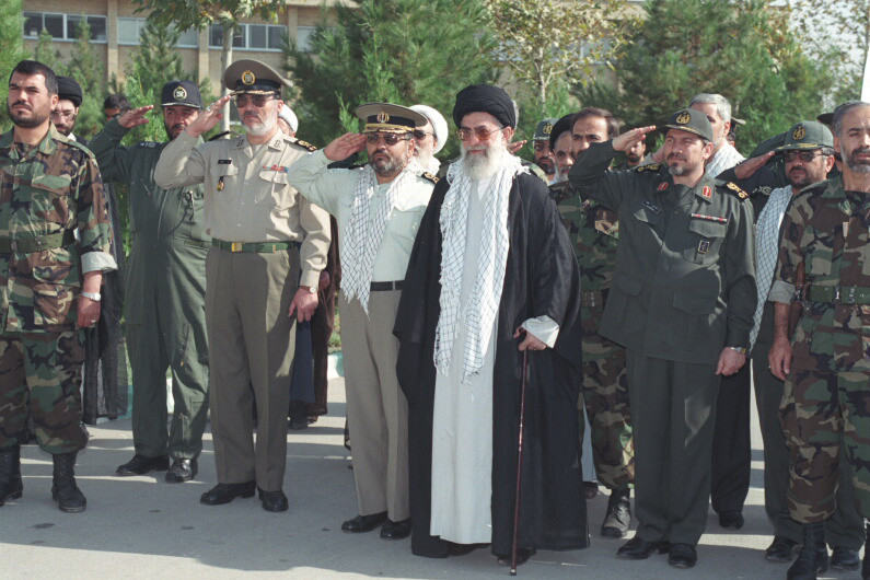 Ali Khamenei with the Revolutionary Guard Corps and Basij - Mashhad